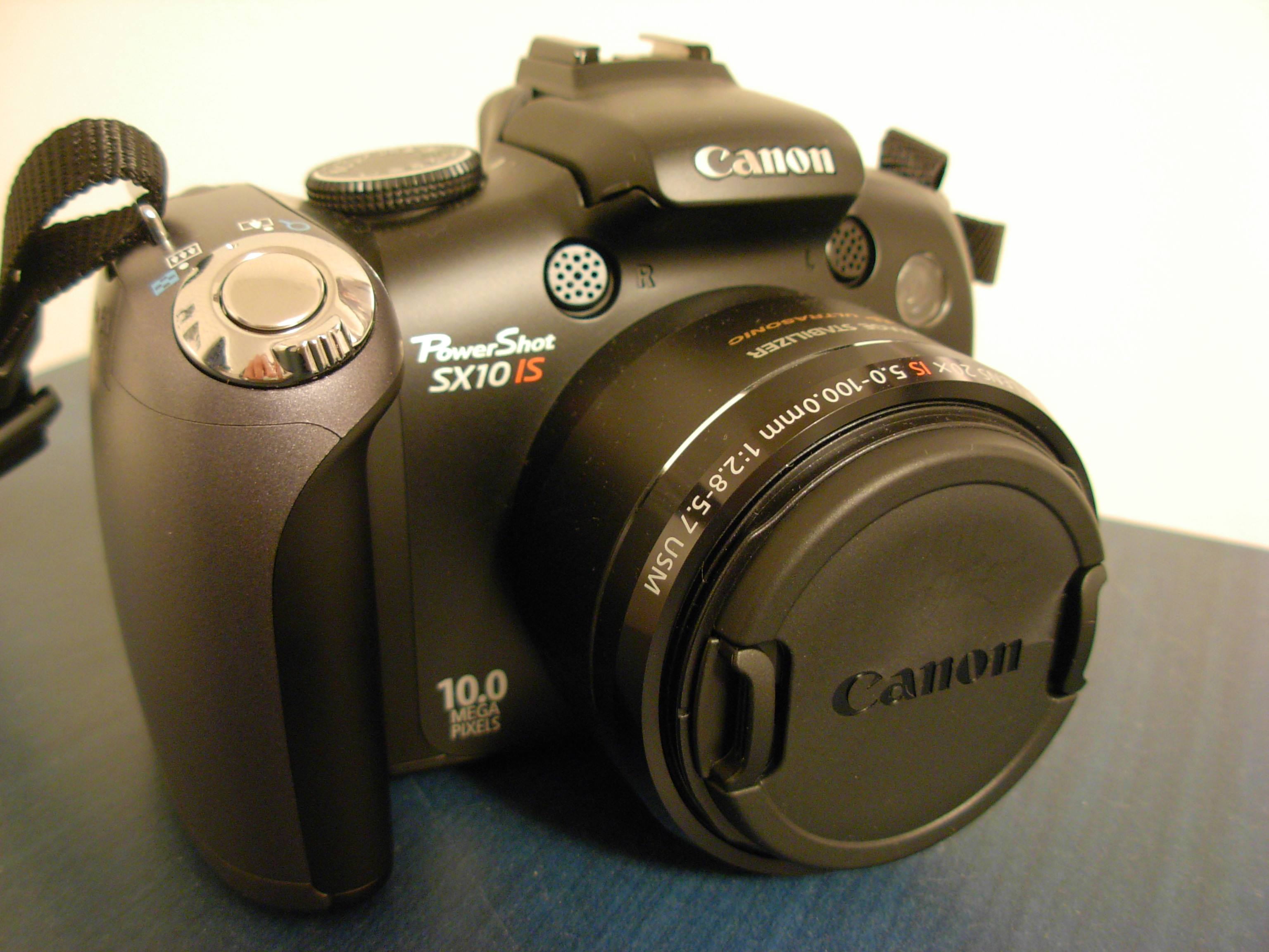 An image of my Canon PowerShot SX10 IS sitting on my desk.